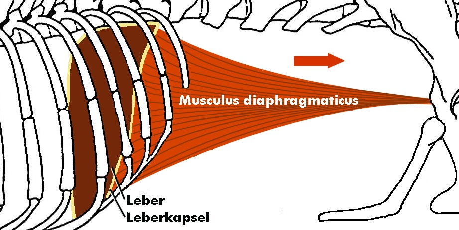 diaphragmic muscle in crocodiles (hepatic piston) Leber=liver; Leberkapsel=liver capsule own work --Uwe Gille 21:48, 16 March 2006 (UTC)